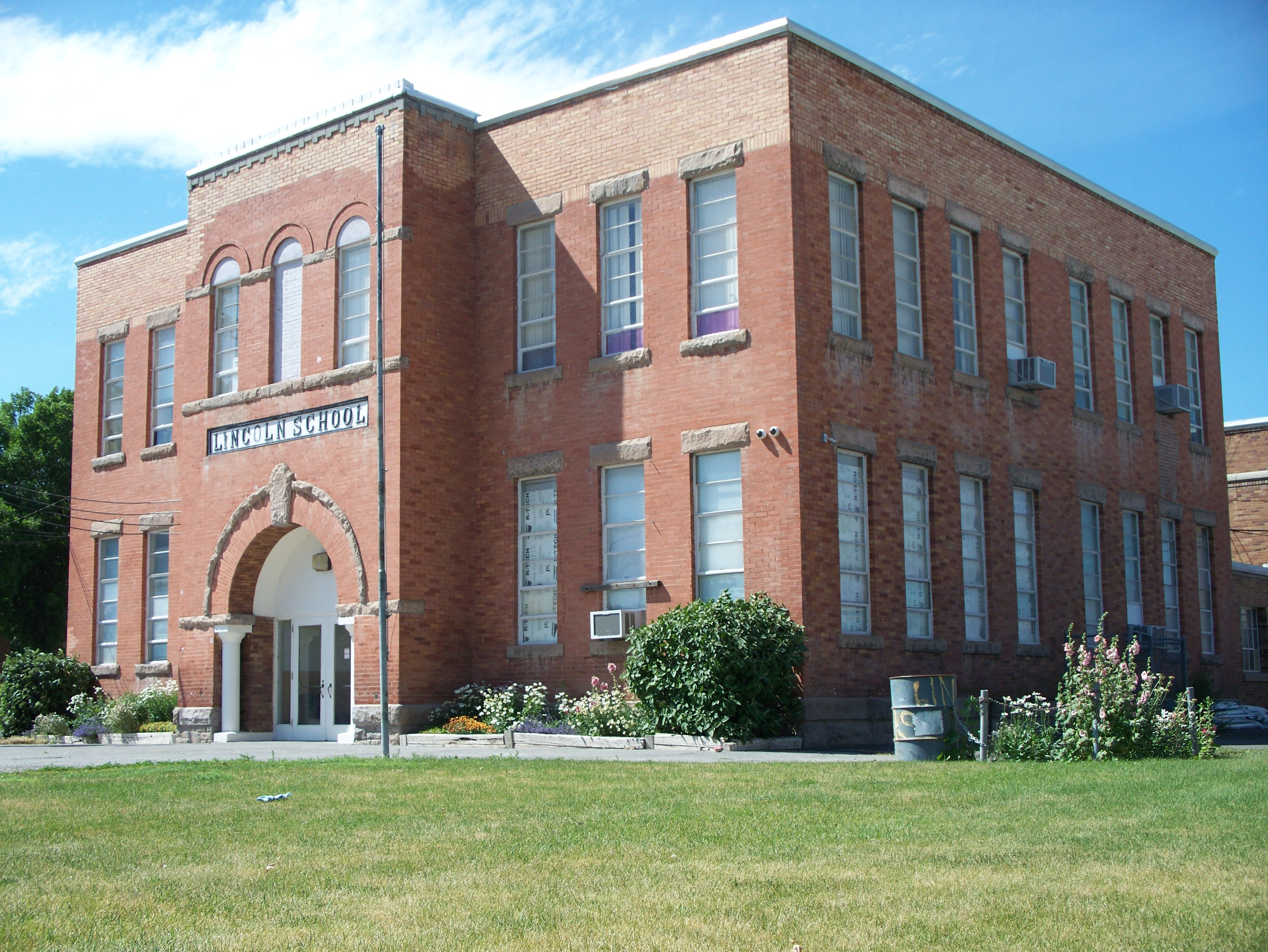 Lincoln High School in Idaho Falls serves students who dropped out of regular high school.